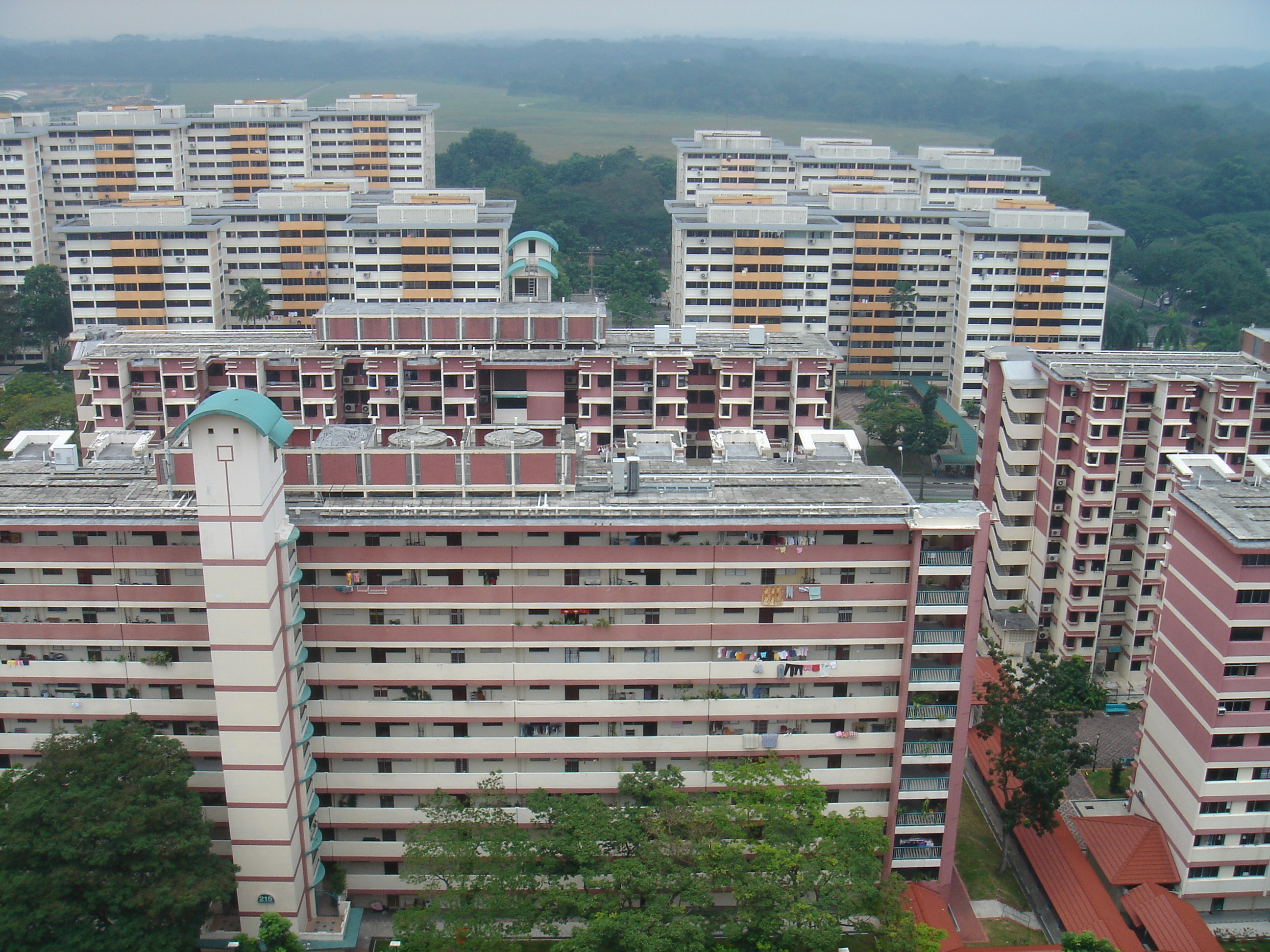 Housing estates at Boon Lay Place, Singapore.